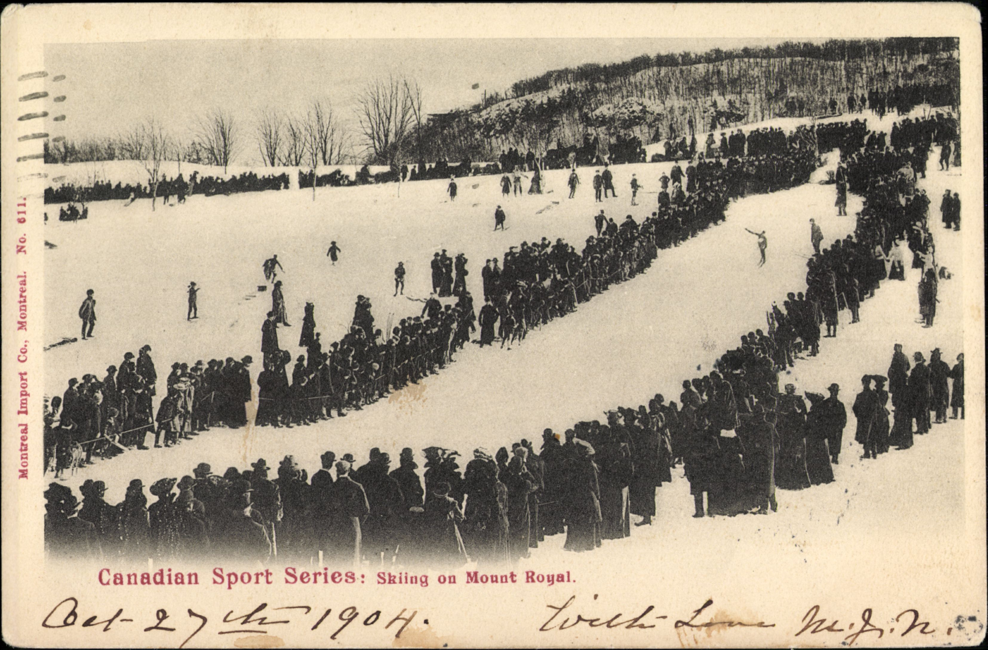 1904 image of skiiers on Mount Royal, Montreal, Quebec.